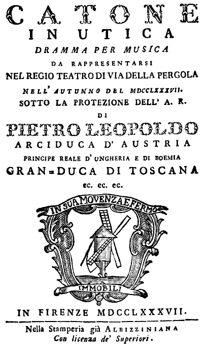 Gaetano Andreozzi - Catone in Utica - titlepage of the libretto - Florence 1787